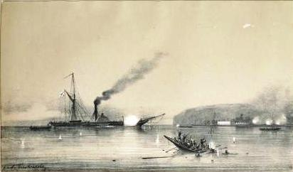 Steamship 'Kolkhida' fighting the Turkish boats at the St. Nicholas Fort near Poti, Georgia during the Crimean War in 1853